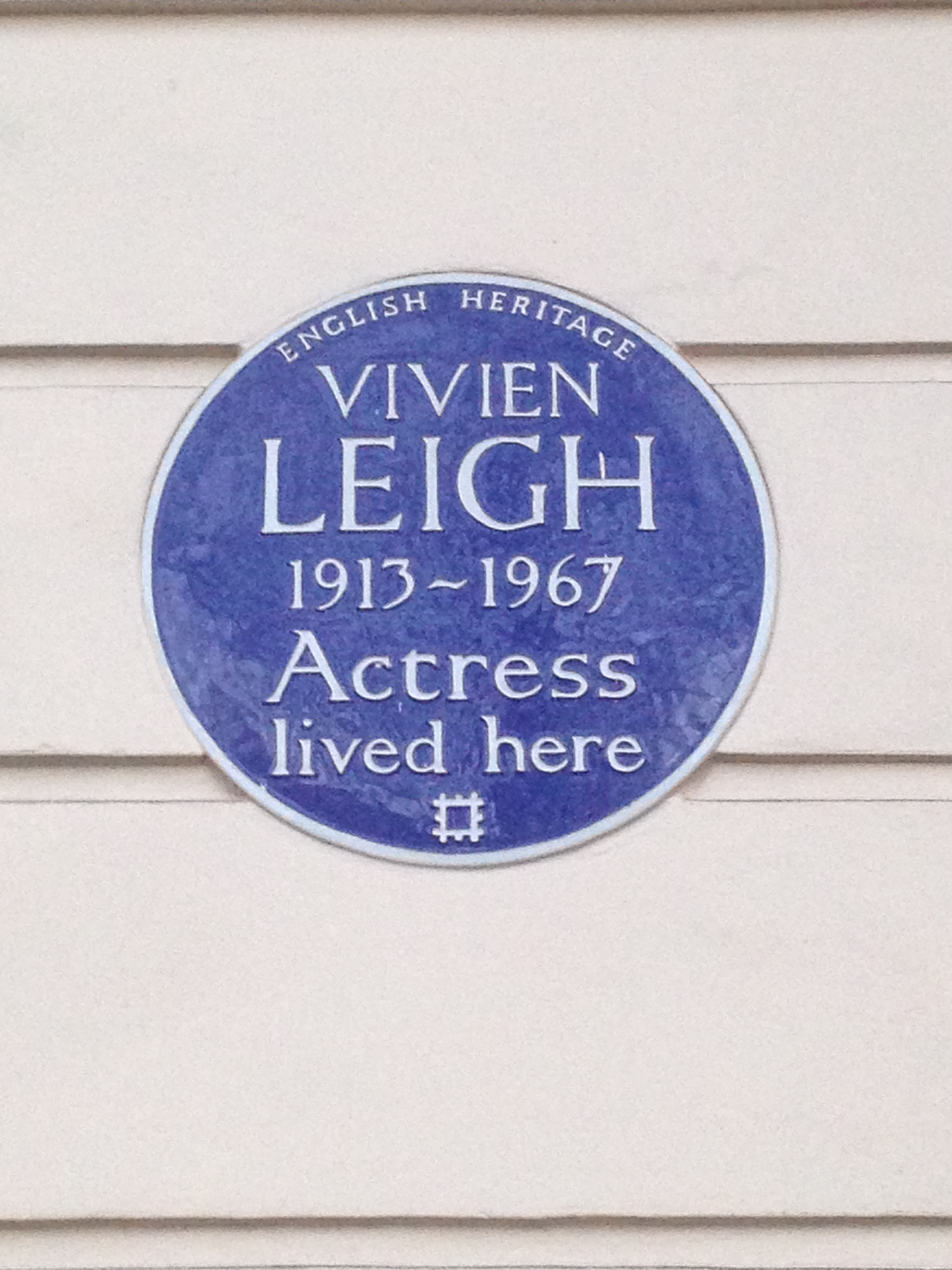 The English Heritage blue plaque for Vivien Leigh at 54 Eaton Square, Belgravia, SW1W 9BE in the City of Westminster.